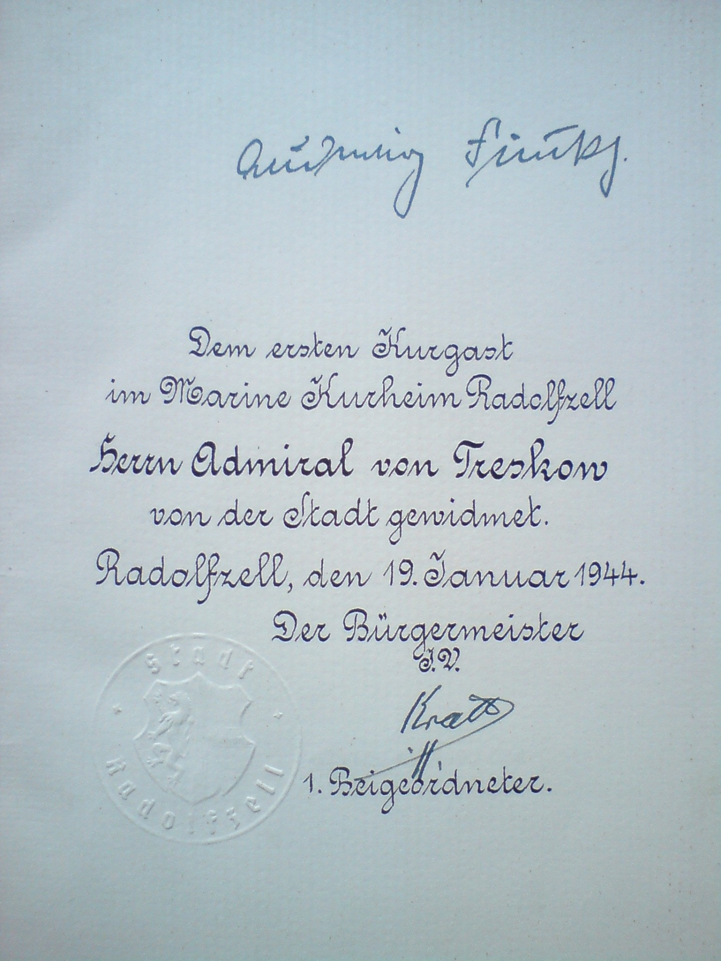 Signature of August Kratt, second mayor of Radolfzell, handwritten dedication of a Ludwig Finckh-book (signed by the author) to Admiral Tresckow, 1944.